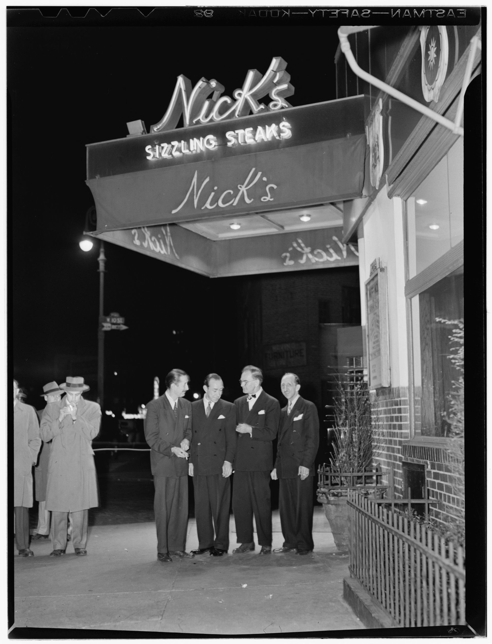 Pee Wee Russell, Muggsy Spanier, Miff Mole, and Joe Grauso, Nick's (Tavern), New York, N.Y., ca. June 1946 (Photograph by William P. Gottlieb)